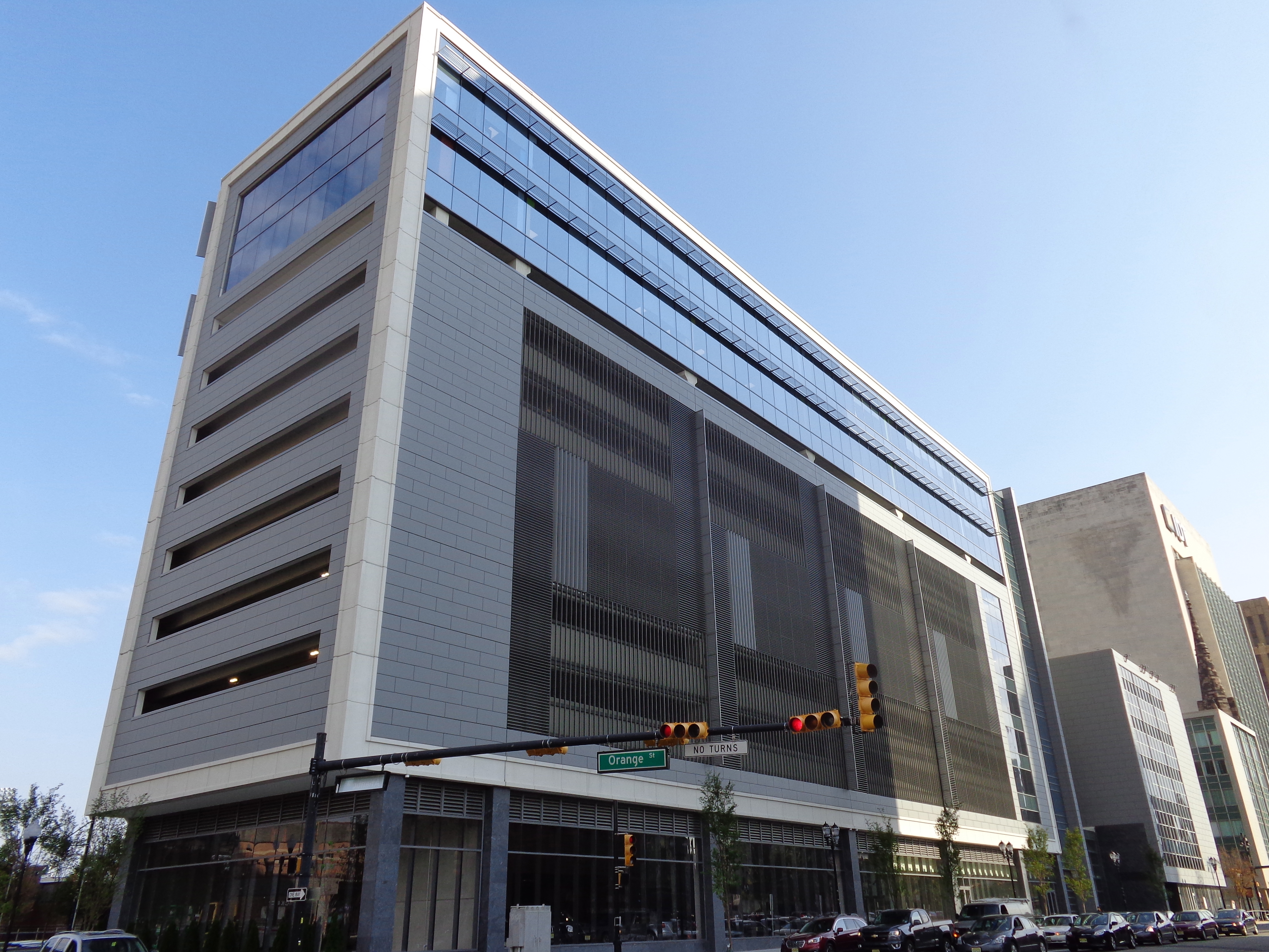 Cablevision Call Center Broad Street Newark